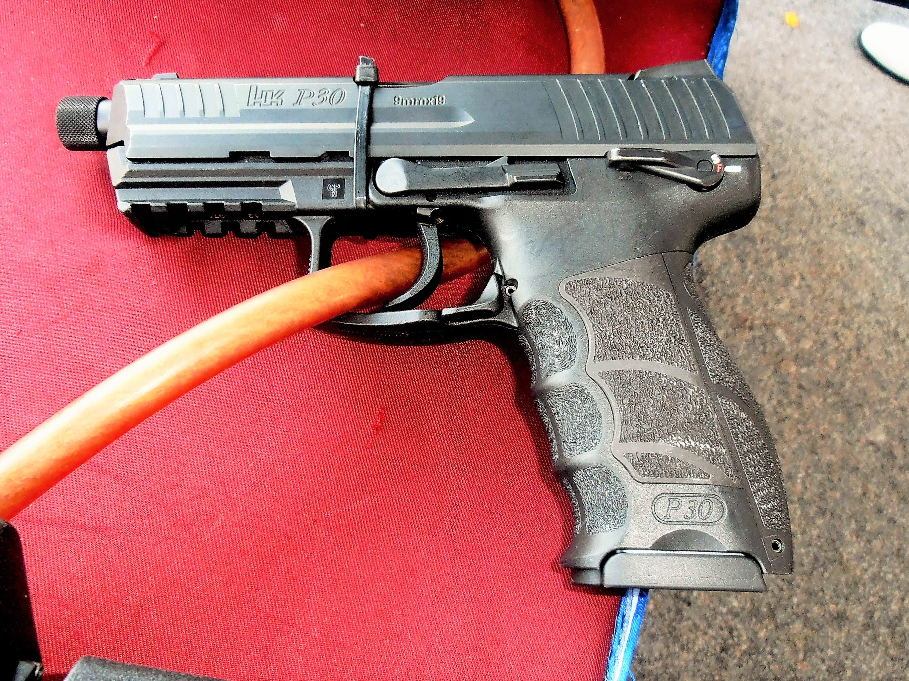 LUMUT (May 01, 2016) A German Heckler & Koch P30 service pistol used by PASKAL on display at an navy armory exhibition booth during 82nd Anniversaries of Royal Malaysian Navy, Lumut, Perak, Malaysia.